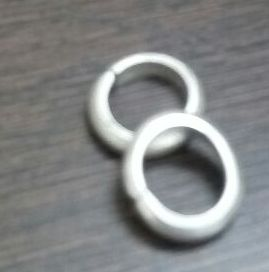 भारतीय अंलकार-जोडवी